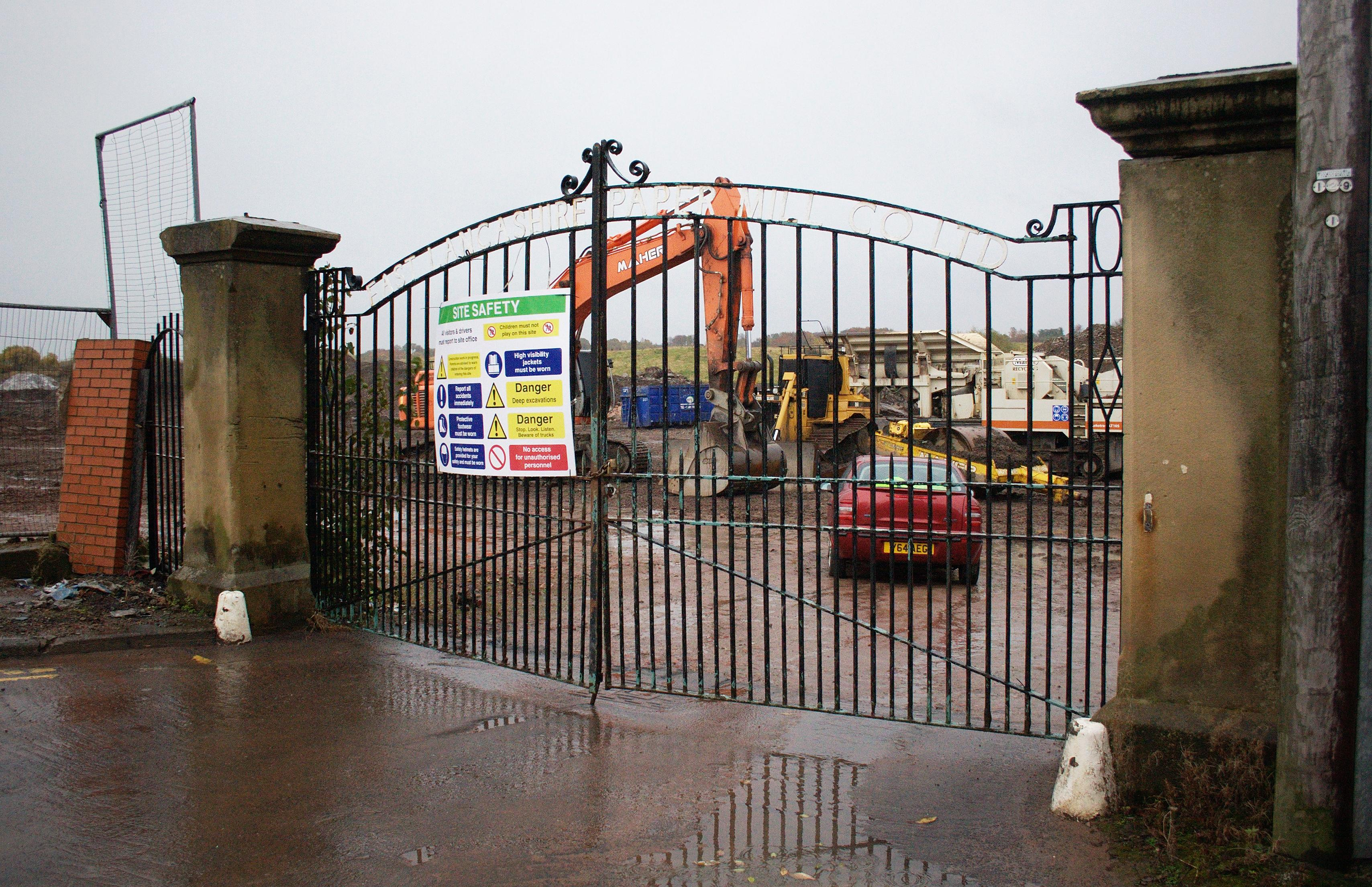 The gate to the former East Lancashire Paper Mill, in Radcliffe, Greater Manchester.